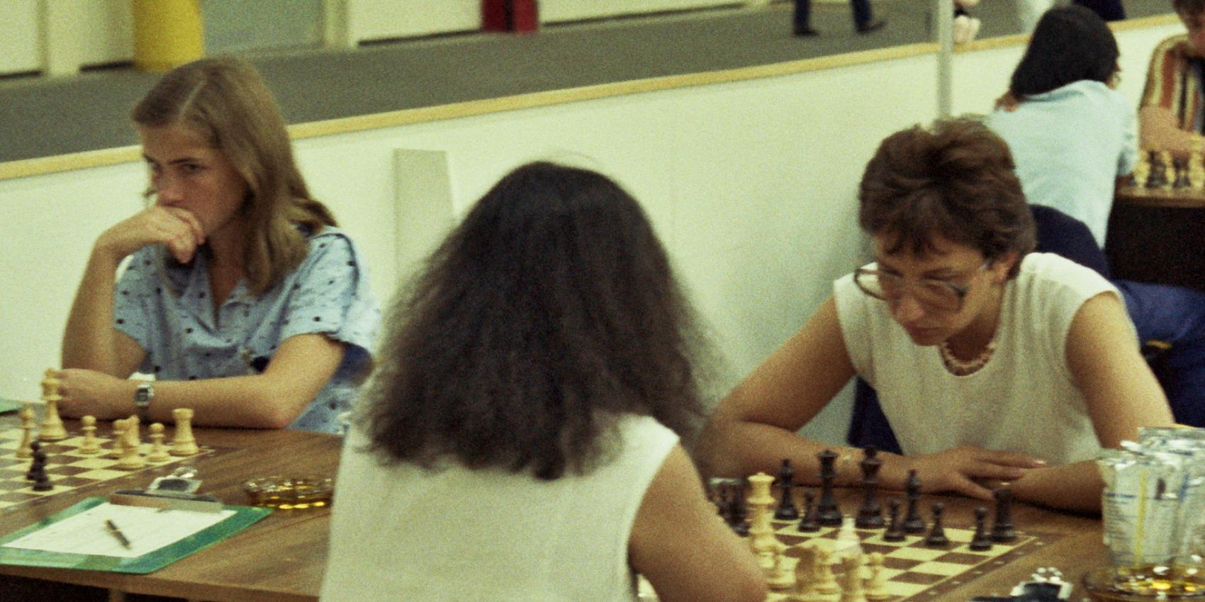 Chess Olympiad 1986 (Ildikó Mádl, Mária Ivánka-Budinsky), Photographer Gerhard Hund.